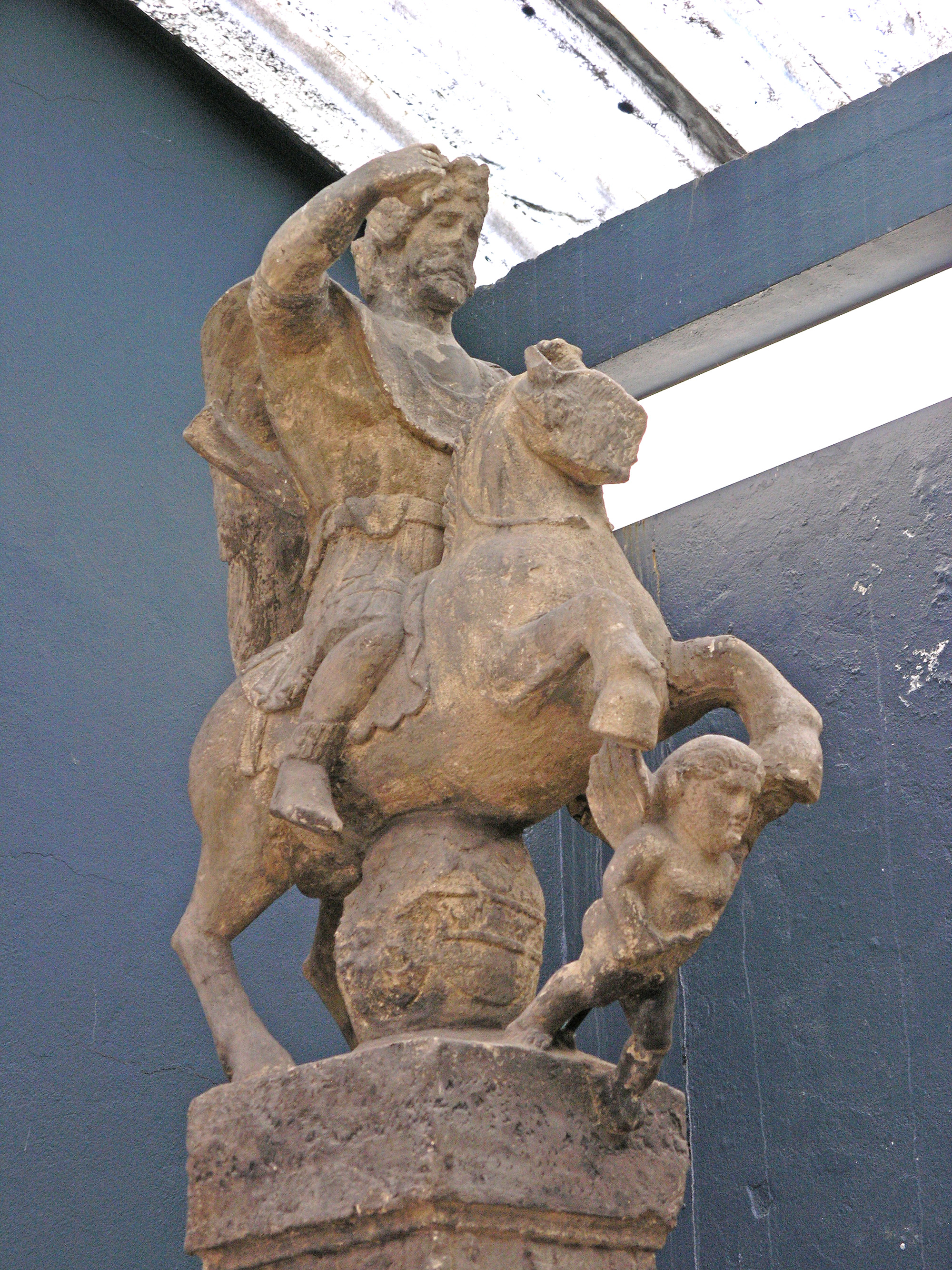 Gallic equestrian group representing Jupiter mounted, found in Grand (Vosges), France. Musée lorrain, Nancy. Photograph taken by Marsyas 10:59, 26 February 2006 (UTC)